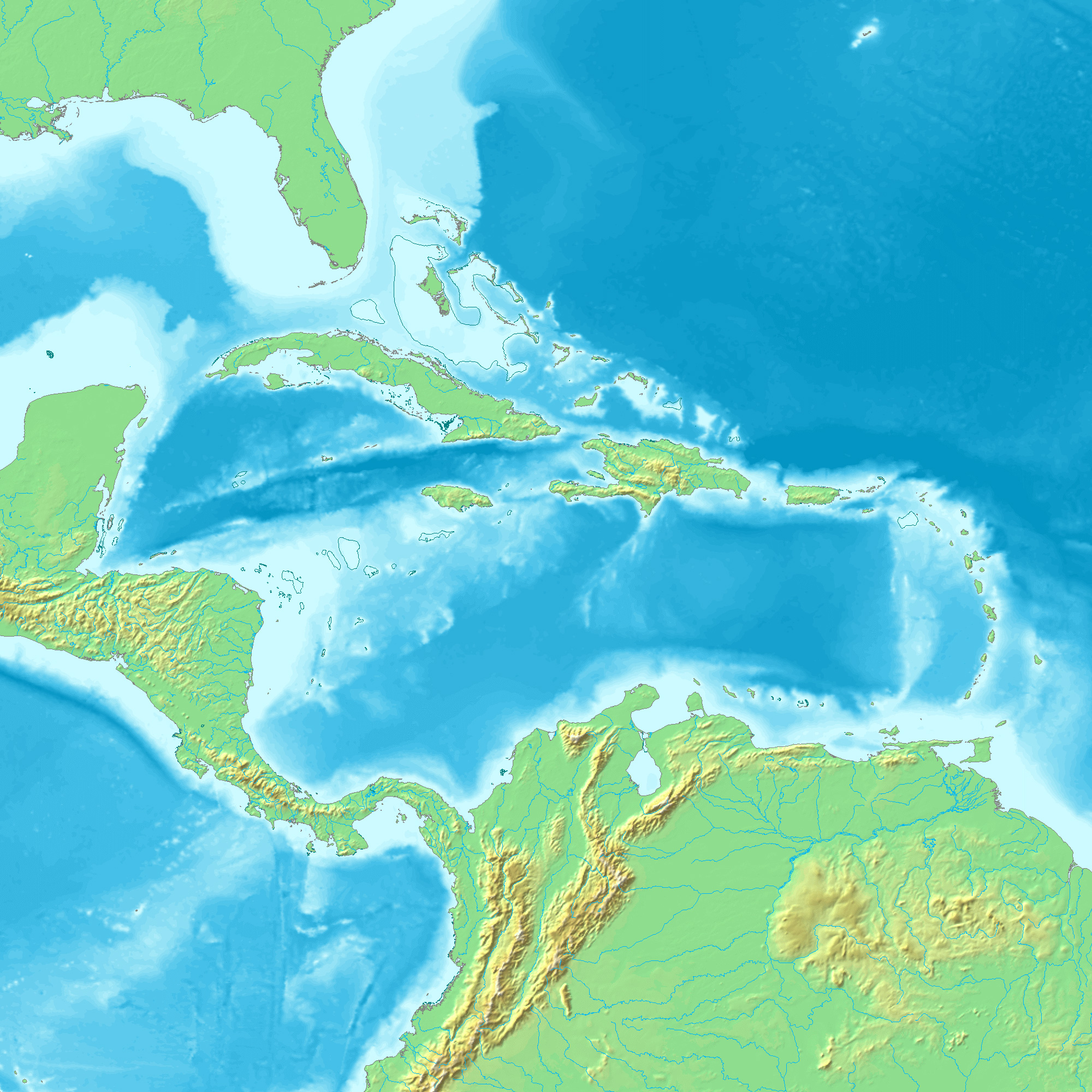 map of Caribbean